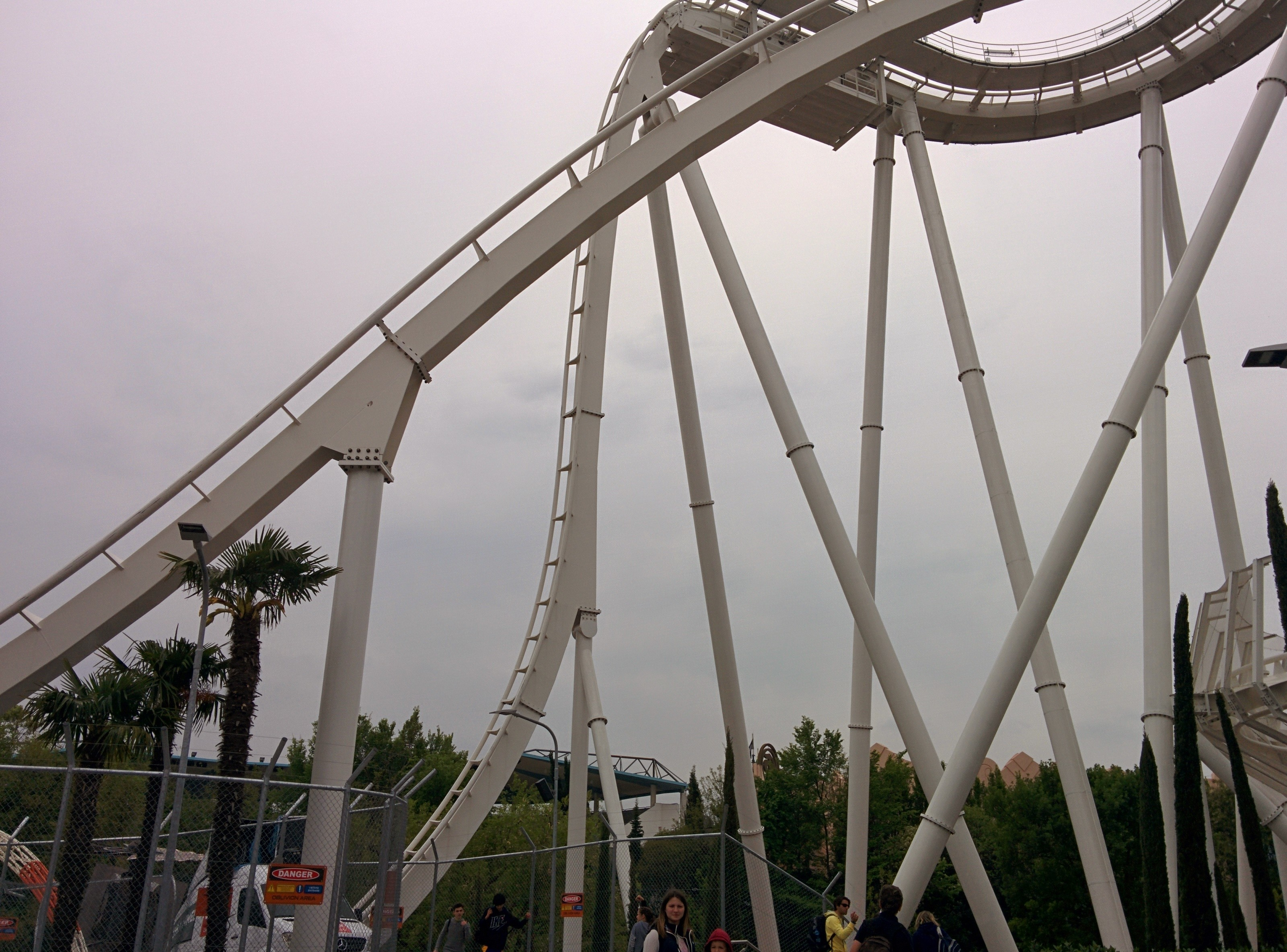 Oblivion is the first Dive Coaster in Italy.